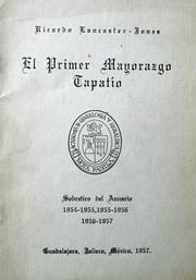 Cover of the book "El Primer Mayorazgo Tapatío" by Ricardo Lancaster-Jones y Verea.